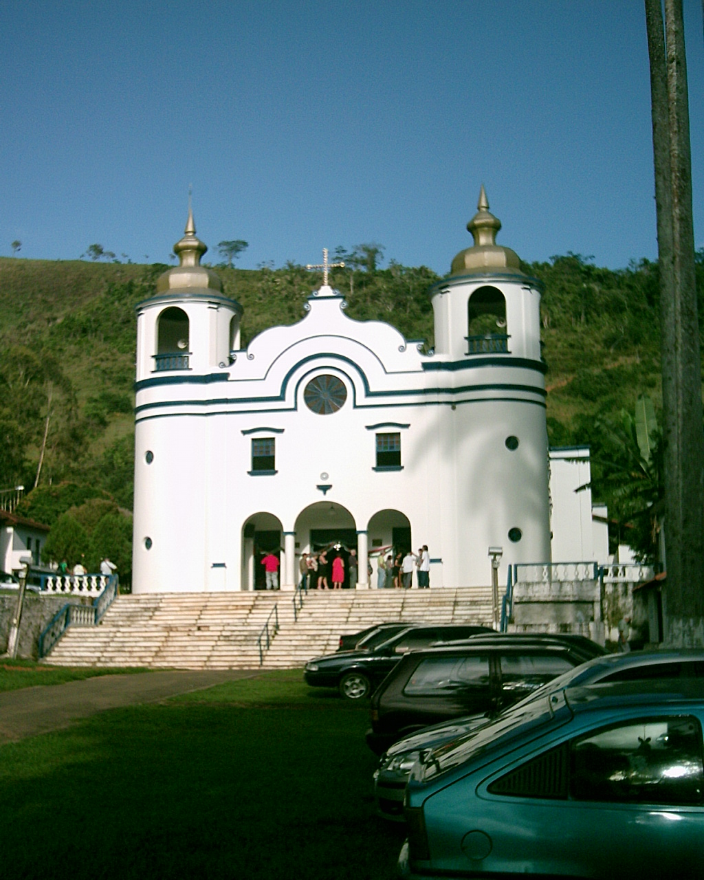 Foto Satuário de Bom Jesus de Matozinhos em Paraíba do Sul